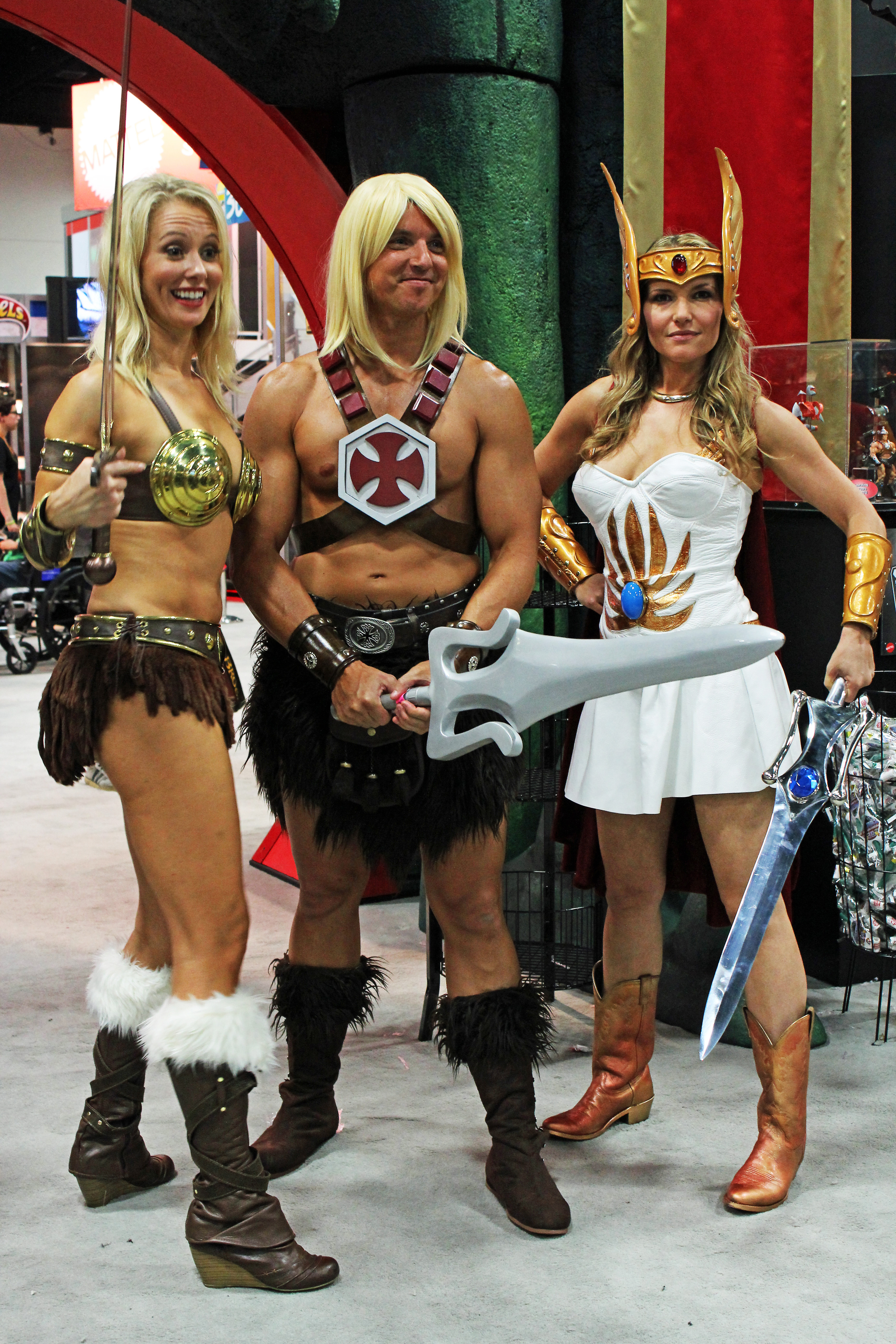 Cosplayers as Teela, He-Man and She-Ra from "He-Man and the Masters of the Universe" at San Diego Comic-Con 2012.